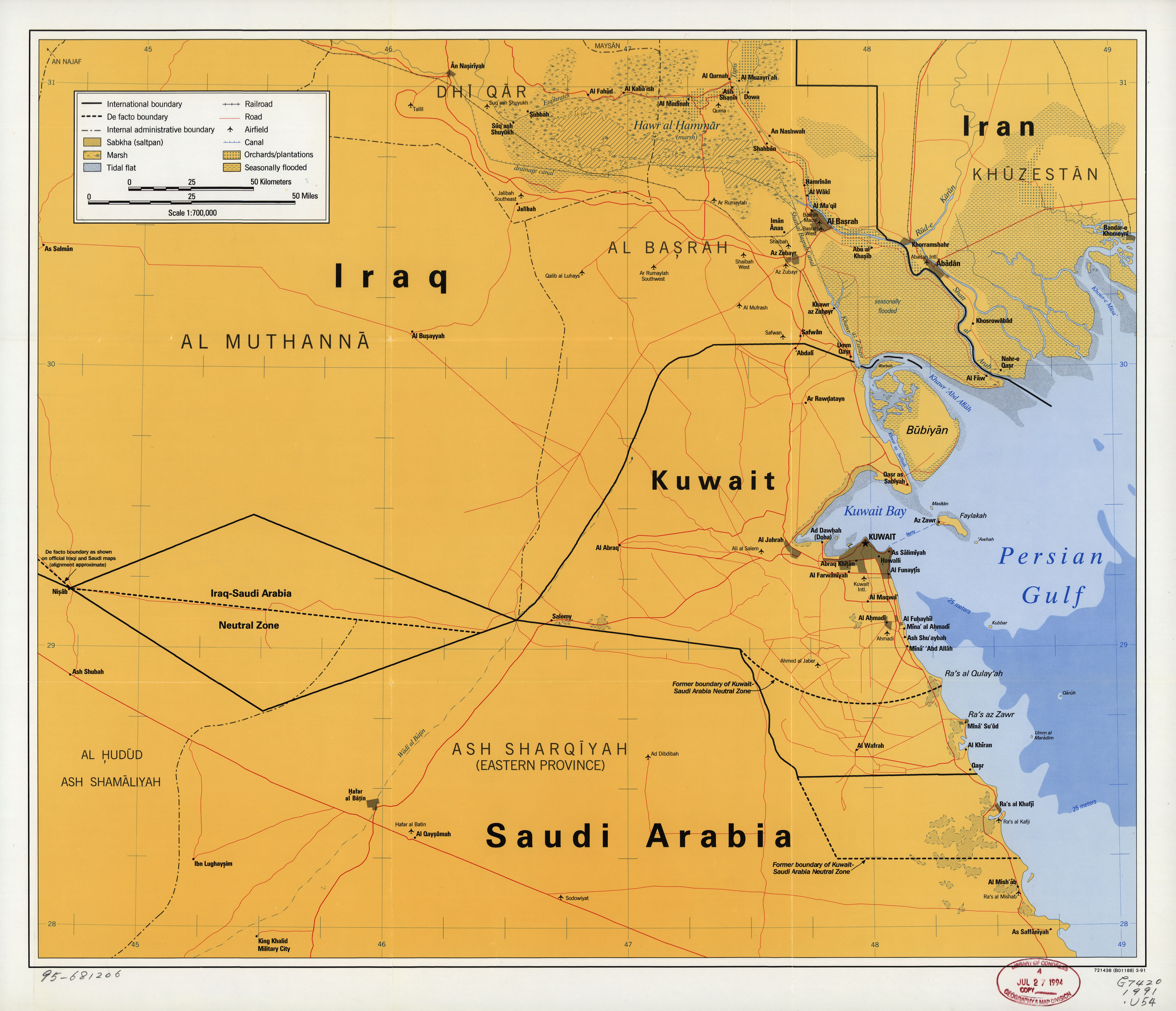 "721438 (B01188) 3-91." Shows countries west of Persian Gulf, Kuwait and its surrounding countries, portions of Iraq, Iran, and Saudi Arabia. Also shows de facto boundaries. Available also through the Library of Congress Web site as a raster image.